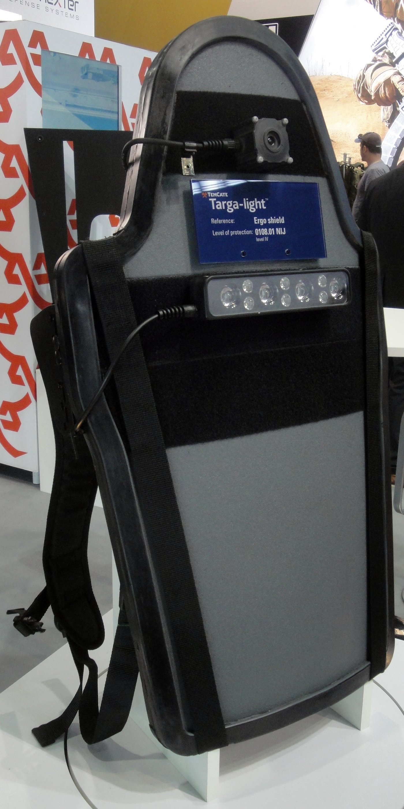 TenCate Targa-Light Ergo ballistic shield, IDET/PYROS/ISET 2019, Brno